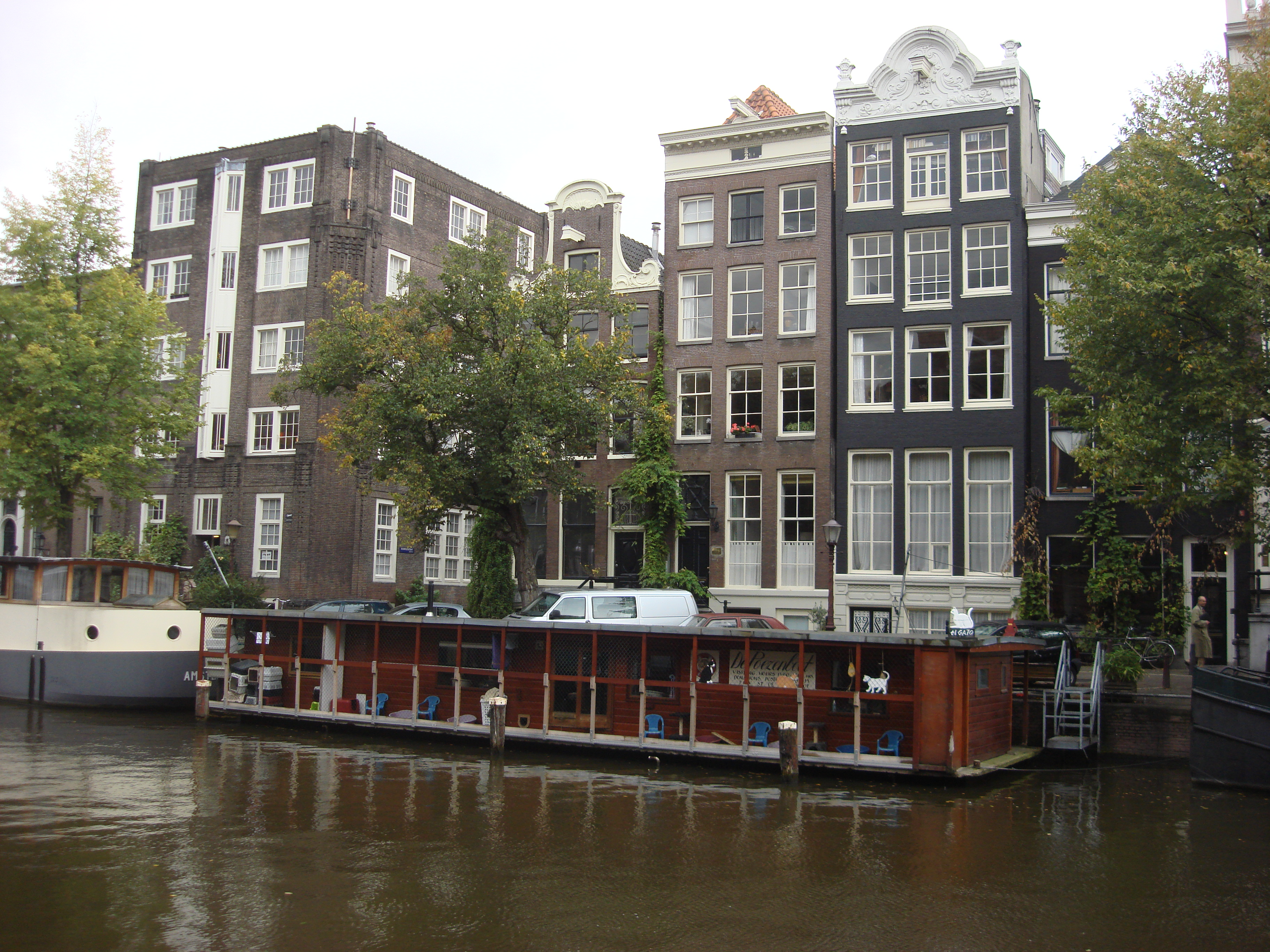 'Cat Boat' (De Poezenboot) in Amsterdam The Cat Boat is the only animal sanctuary in the Netherlands that literally floats. A refuge for stray and abandoned cats which, thanks to its unique location on a houseboat in Amsterdam's picturesque canal belt, has become a world-famous tourist attraction. Address: de Poezenboot Singel 38 G 1015 AB Amsterdam The Netherlands